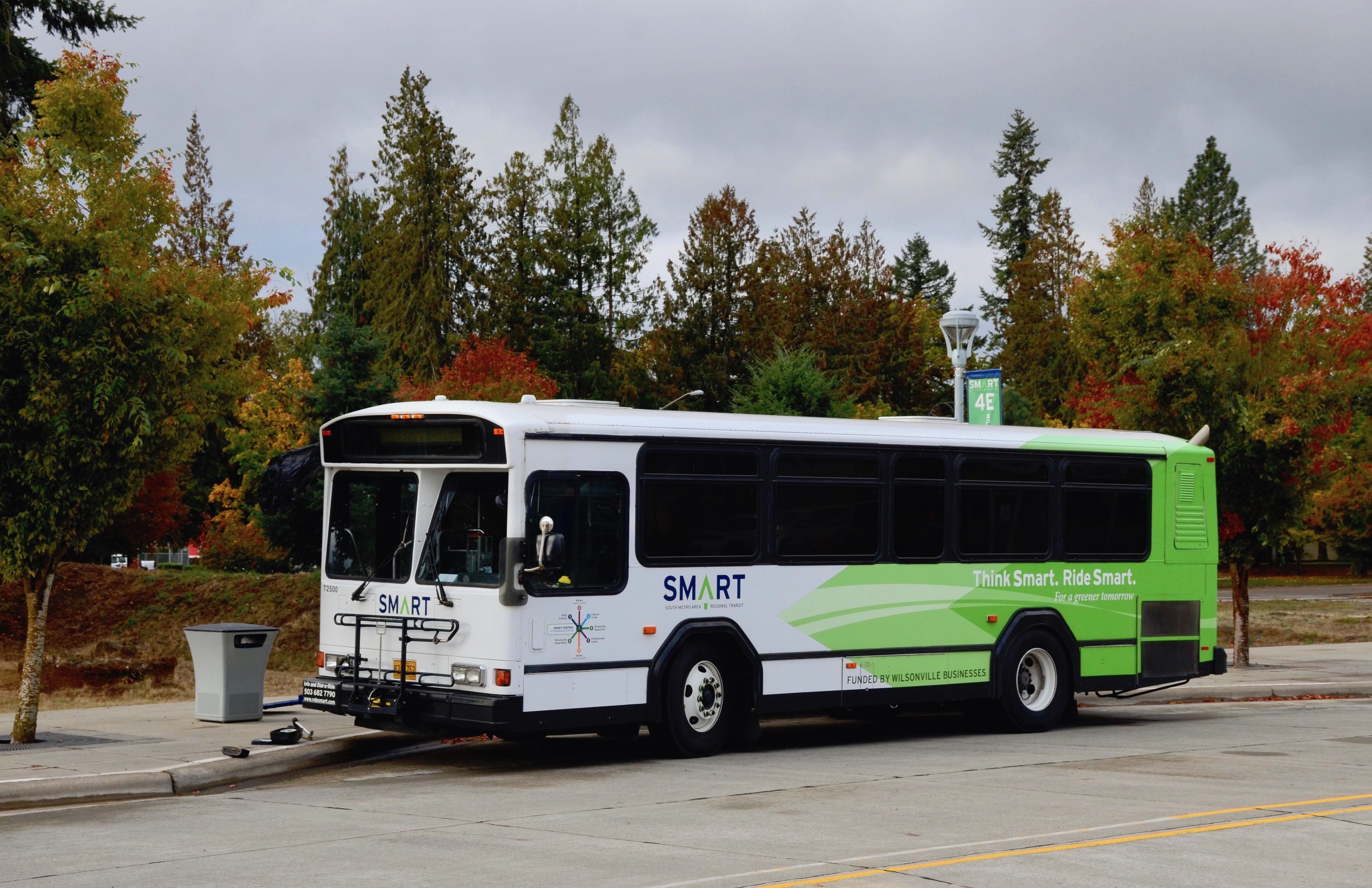 Bus T2500 of South Metro Area Regional Transit (SMART), the transit system of Wilsonville, Oregon, is a 30-foot Gillig Phantom that was built in 2000 and was formerly Denver RTD No. 3855. It is pictured at the Wilsonville Station transit center in 2018. On this day (a Sunday), it was not in service.